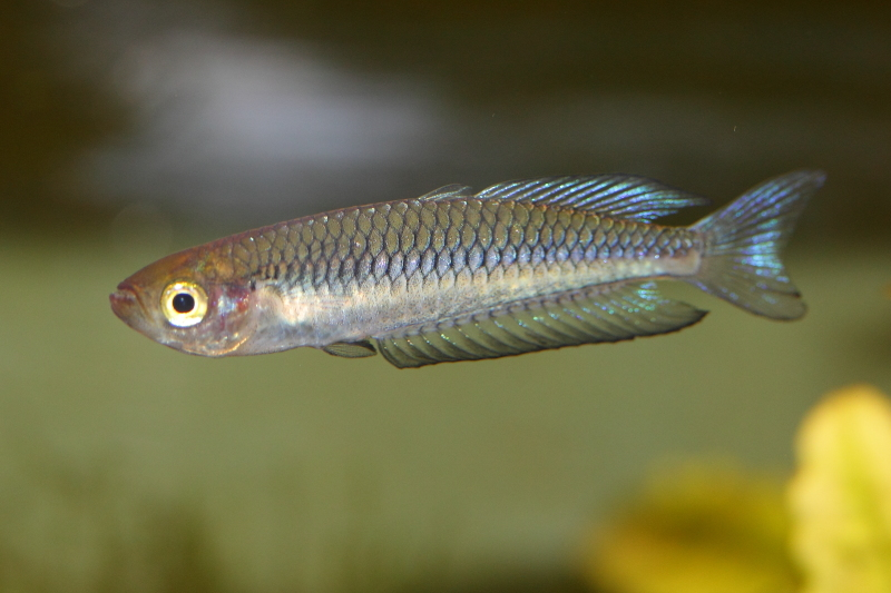 Rhadinocentrus ornatus from Searys Creek, southeast Queensland, Australia. Male in aquarium.